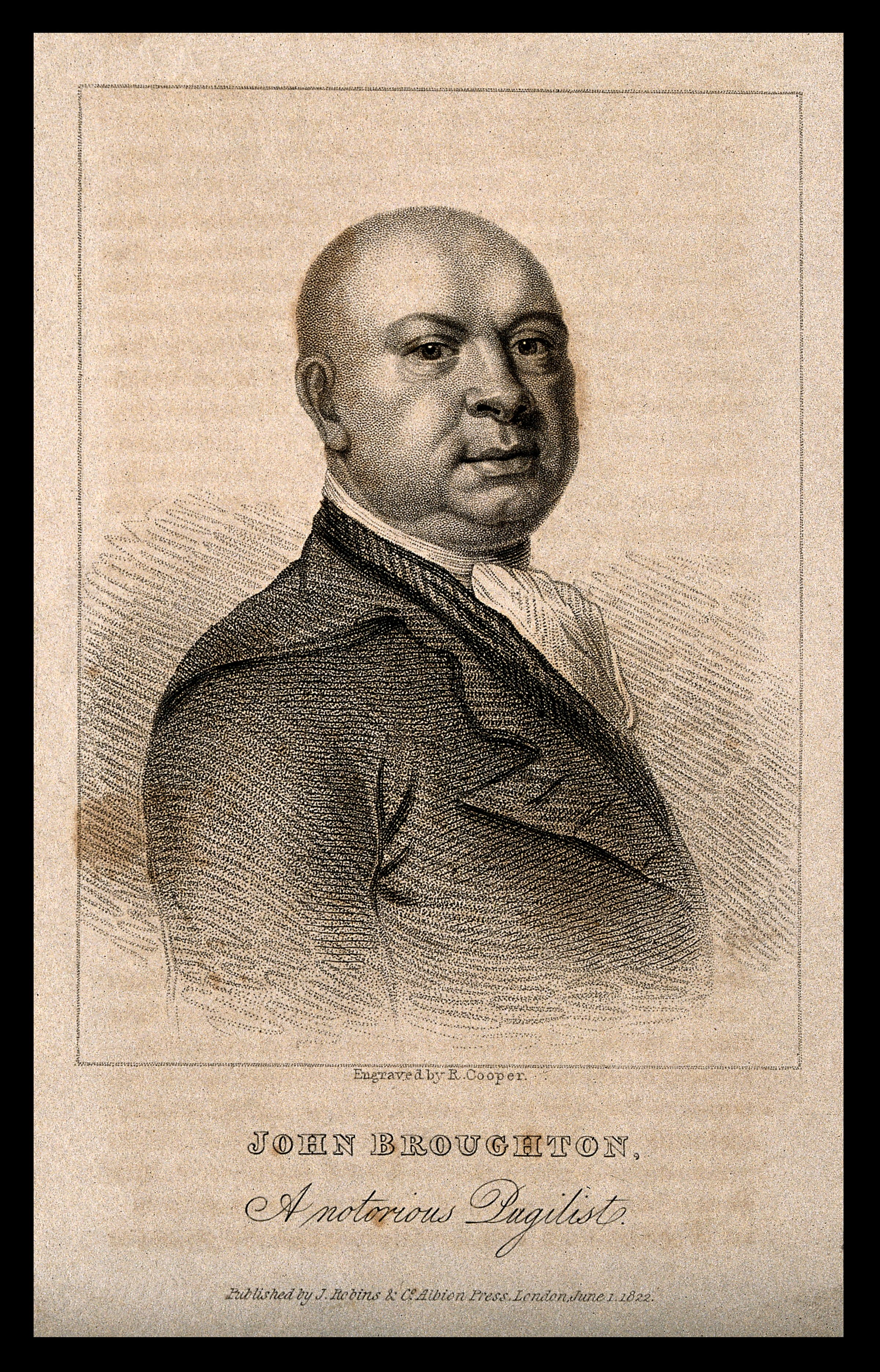 John Broughton, "the founder of the British School of Boxing". Stipple engraving by R. Cooper, 1822. Iconographic Collections Keywords: John Broughton; portrait prints; Boxing; broughton, john, 1704-1789; Robert Cooper; stipple prints